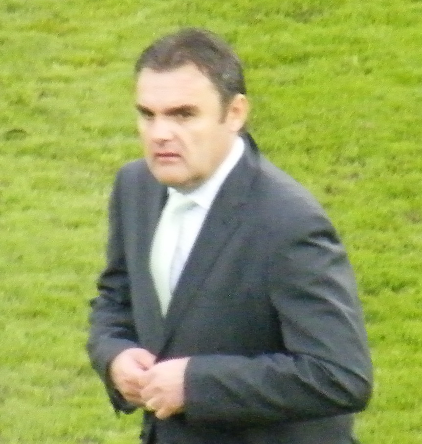 Attila Pintér Hungarian association football coach and association football player.